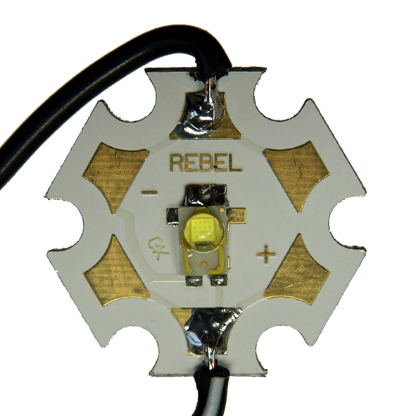 High power LED "Rebel" from Luxeon with 3 W power